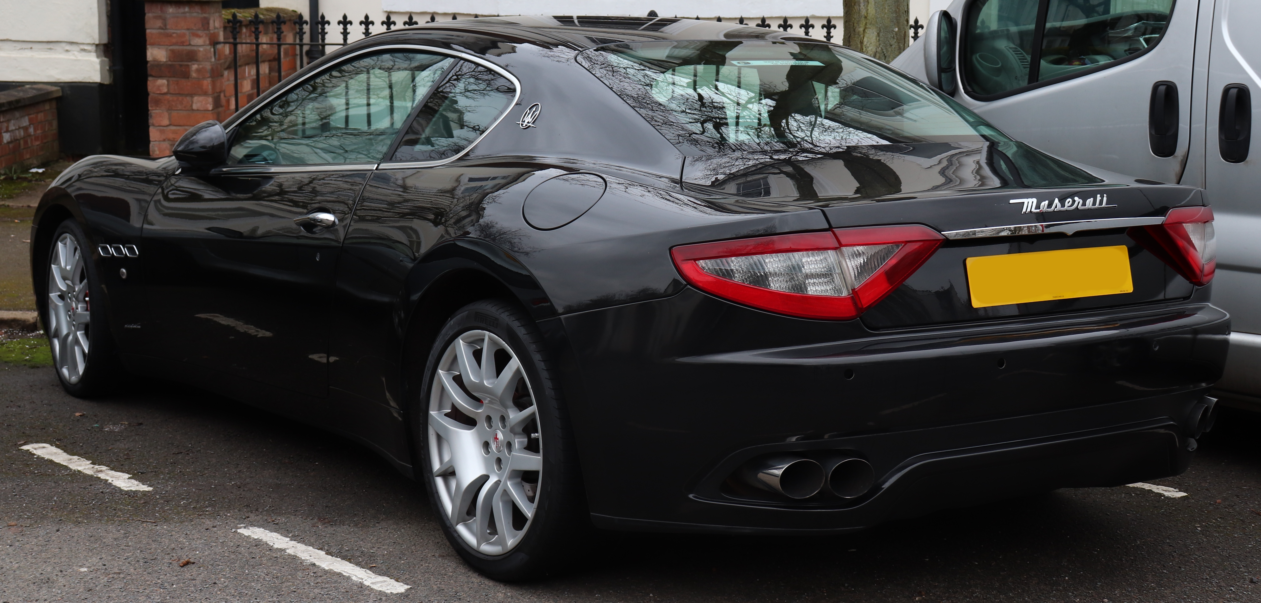 2007 Maserati GranTurismo V8 Automatic 4.2 Rear Taken in Leamington Spa